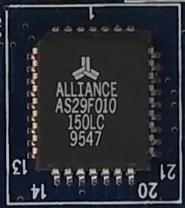 Flash ROM frim Alliance Semiconductor at a JAZZ Adrenaline Rush 3D